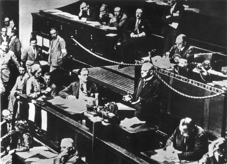 Genf: First speech by Foreign Minister Stresemann in the "Völkerbund" after the admission of Germay on September 8, 1926.